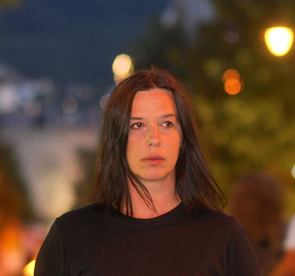 Фотографија од Катерина Колозова